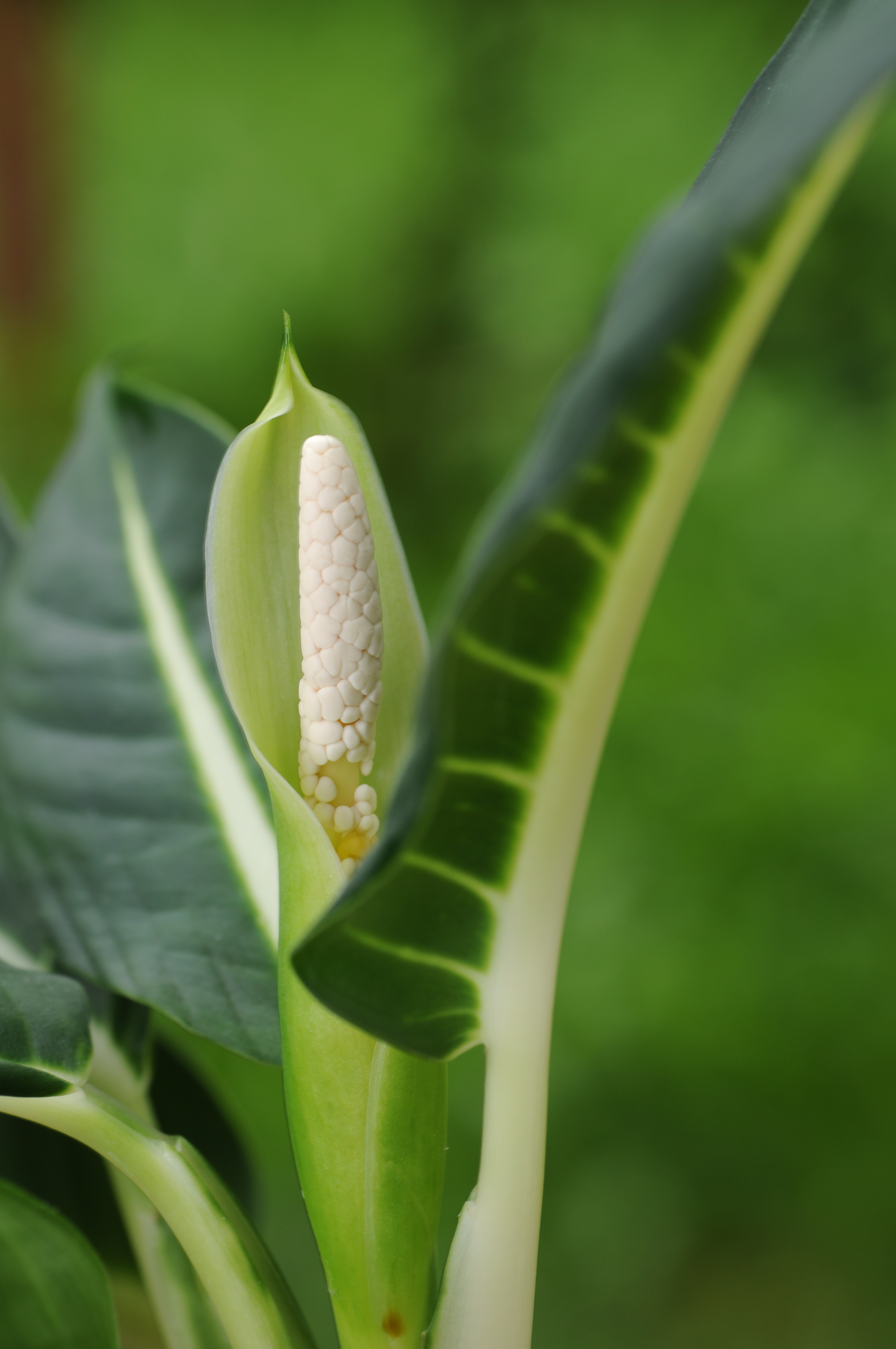 Inflorescence of a Dieffenbachia oerstedii. The plant has been kept in indoor. The flower has opened at the beginning of June and smells stronlgy of almonds. At the left a second, yet closed, inflorescence. At temperatures around 15 °C it goes limp but it recovers again if the temperature is risen on time.